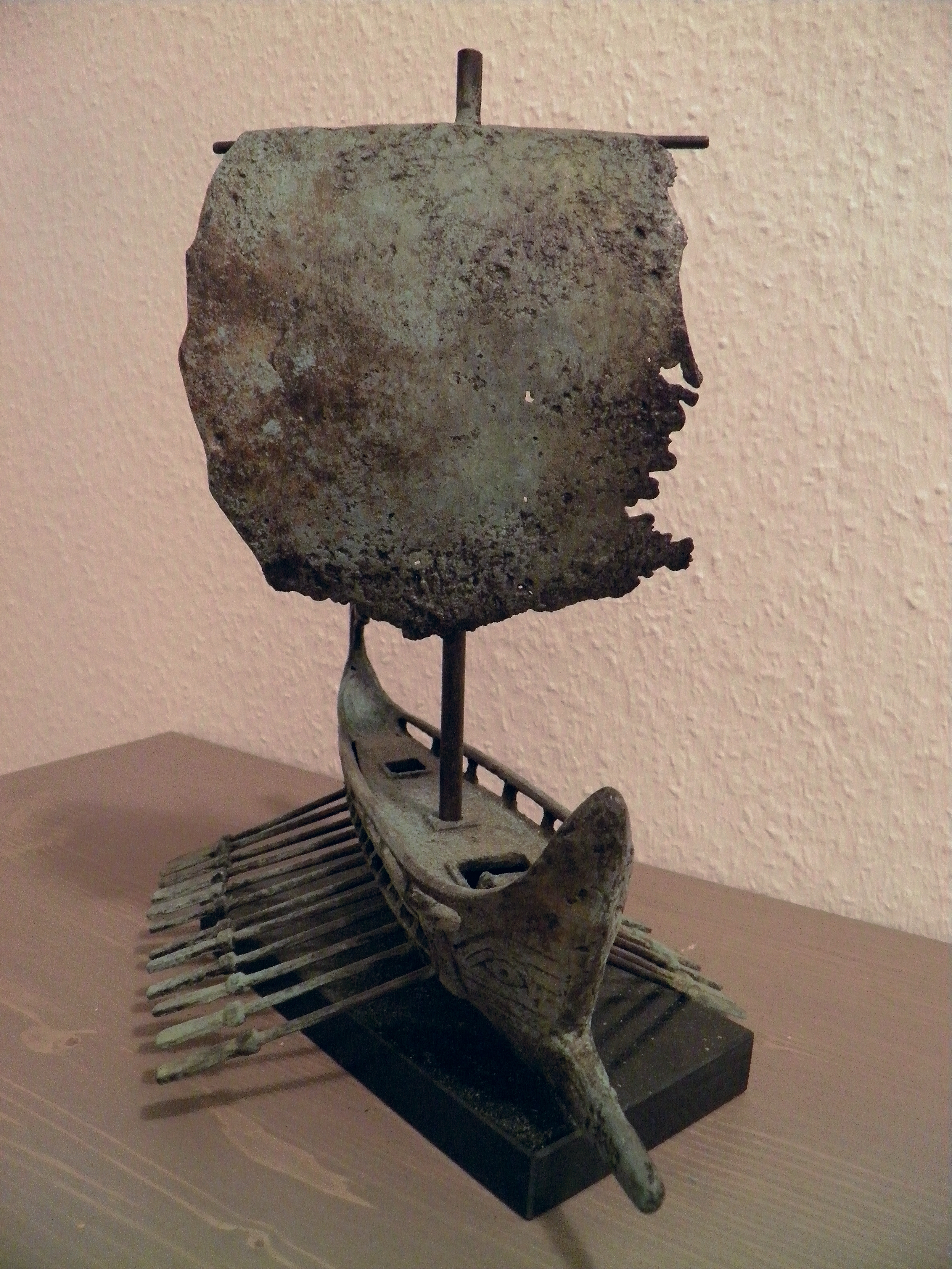 Height on base: 45cm Length: 46cm This boat is inspired by the penteconter, a forerunner of the Athenian bireme and trireme, an ancient Greek galley used since the archaic period. The penteconter was a long range ship, used for sea trade, piracy, warfare and exploration, capable of transporting freight or troops. The evil eye on the side of the hull, a common motif, designed to warn and frighten the enemy!